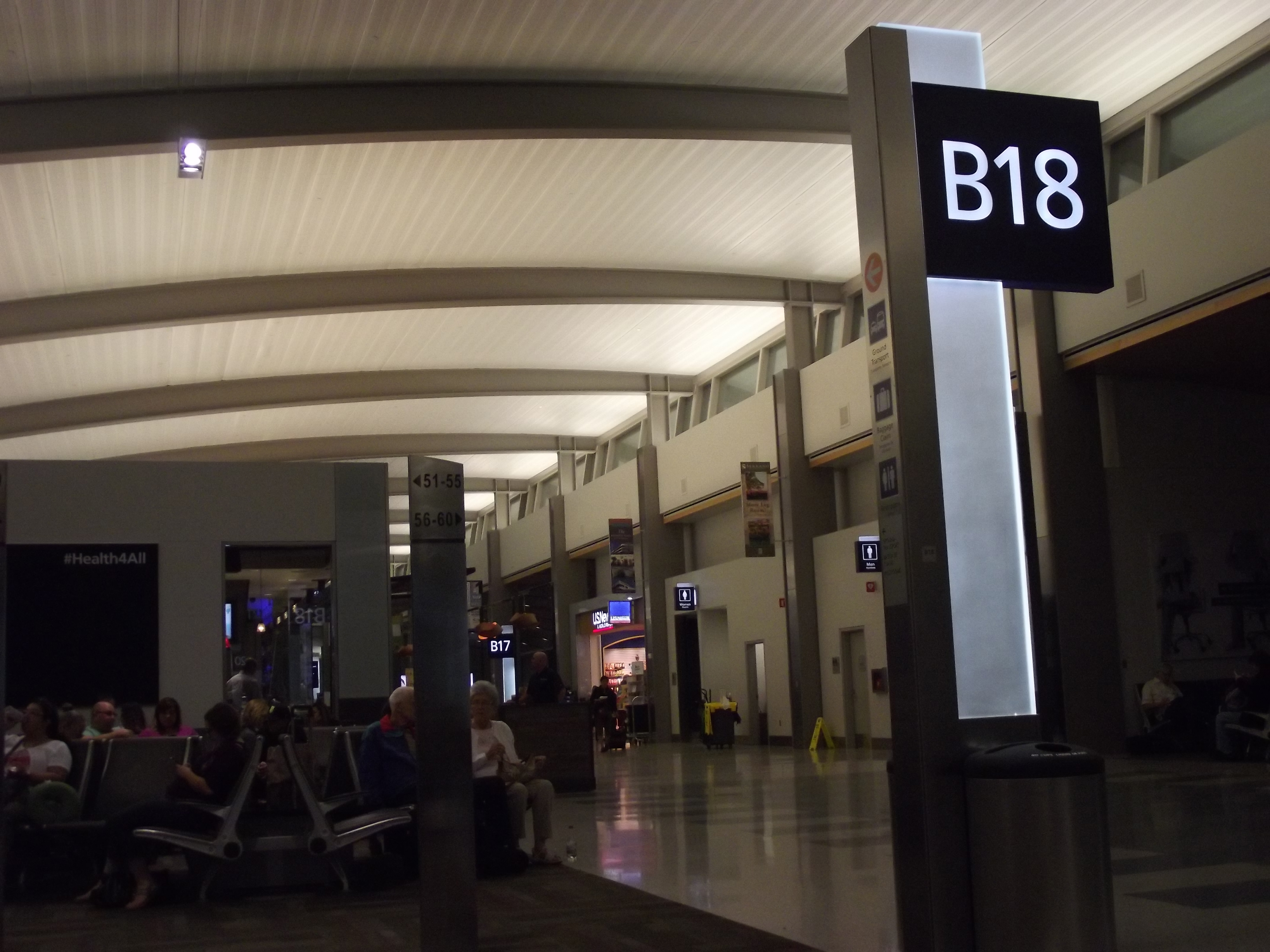 Sacramento International Airport